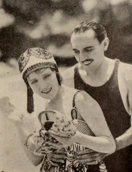 Still from the American drama film Daughter Angele (1918) with Pauline Starke and Philo McCullough, on page 31 of the August 31, 1918 Exhibitors Herald.